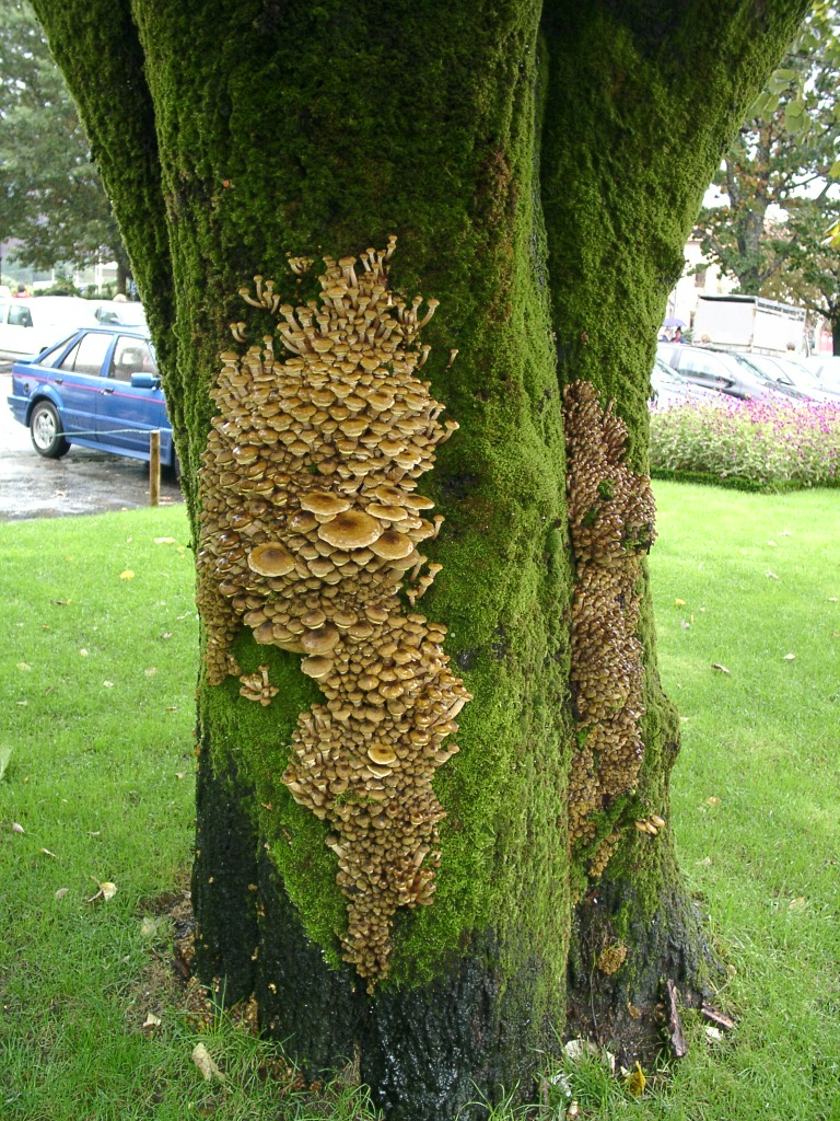 Honey Armillary